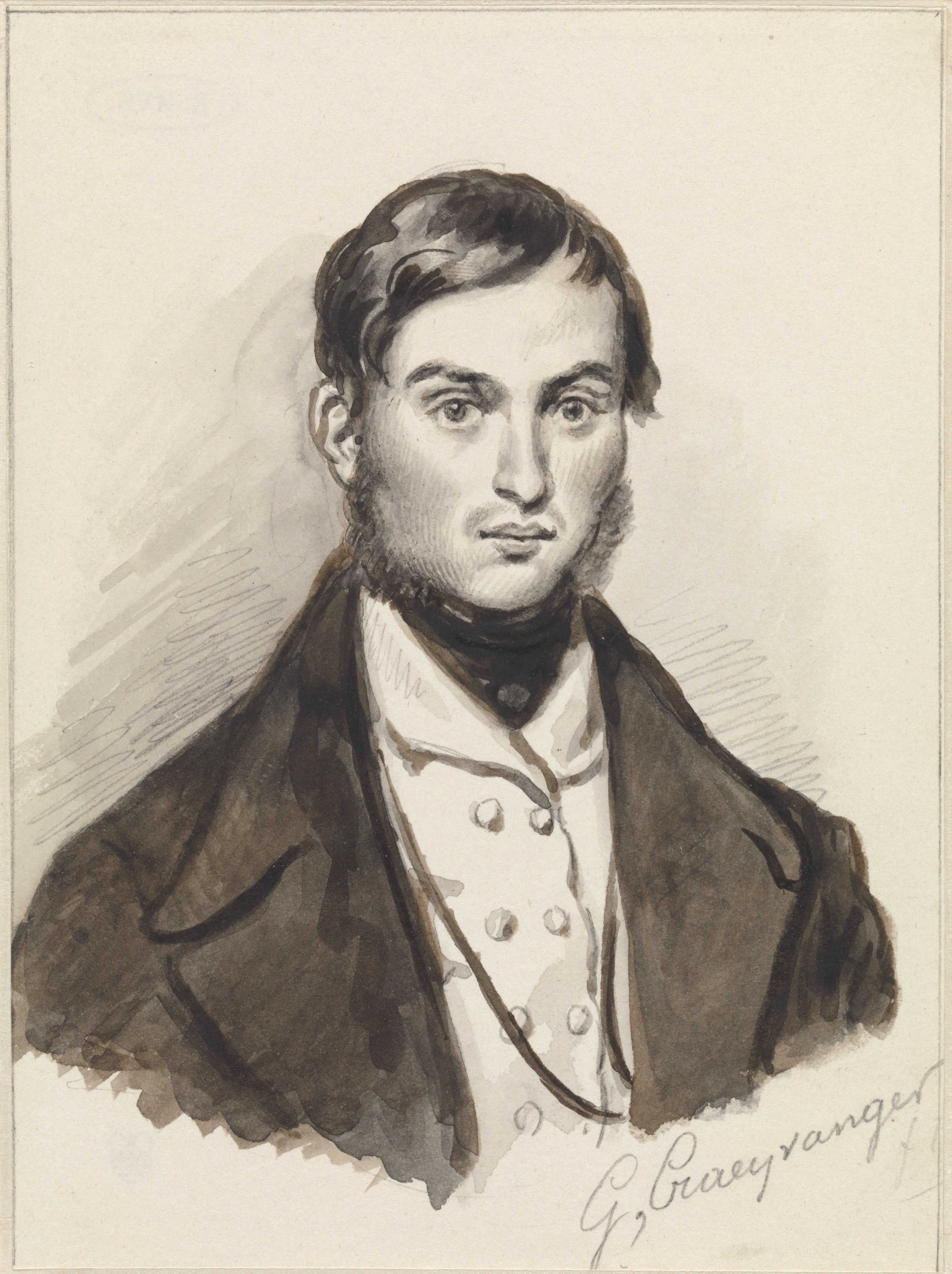 Selfportret